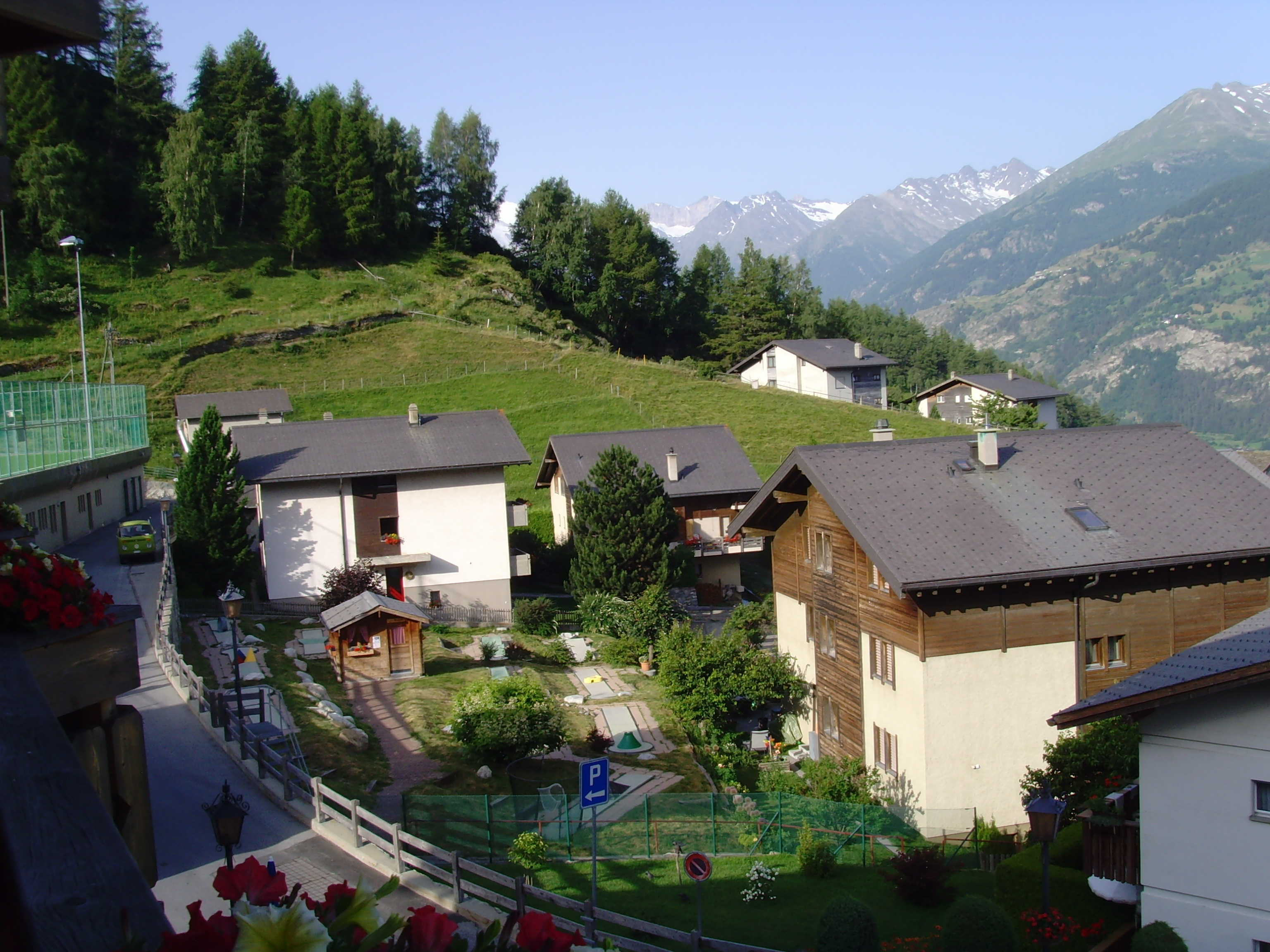 Visperterminen, Valais, Switzerland